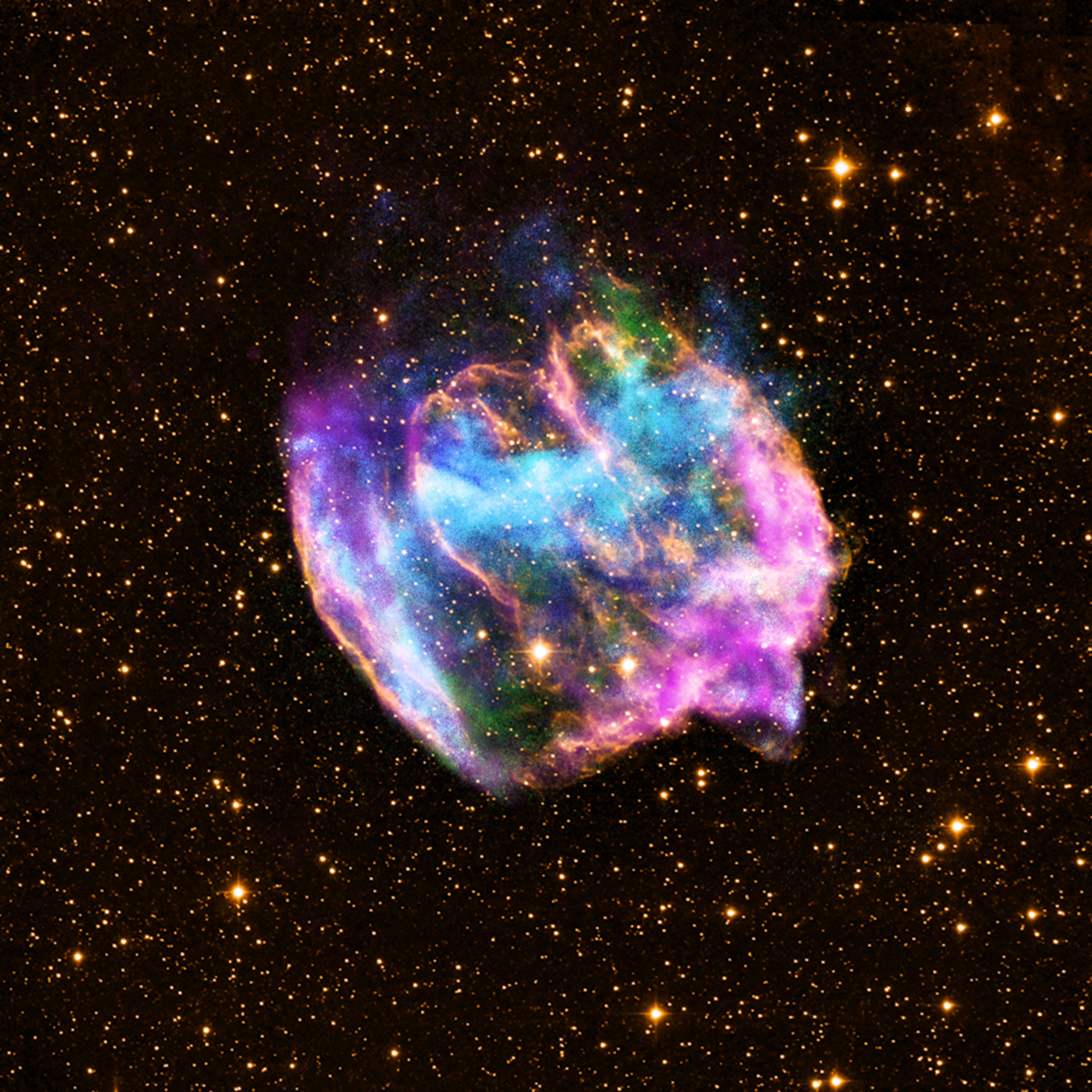 The remnant, called W49B, is about a thousand years old, as seen from Earth, and is at a distance of about 26,000 light years away. The highly distorted supernova remnant shown in this image may contain the most recent black hole formed in the Milky Way galaxy. The image combines X-rays from NASA's Chandra X-ray Observatory in blue and green, radio data from the NSF's Very Large Array in pink, and infrared data from Caltech's Palomar Observatory in yellow.